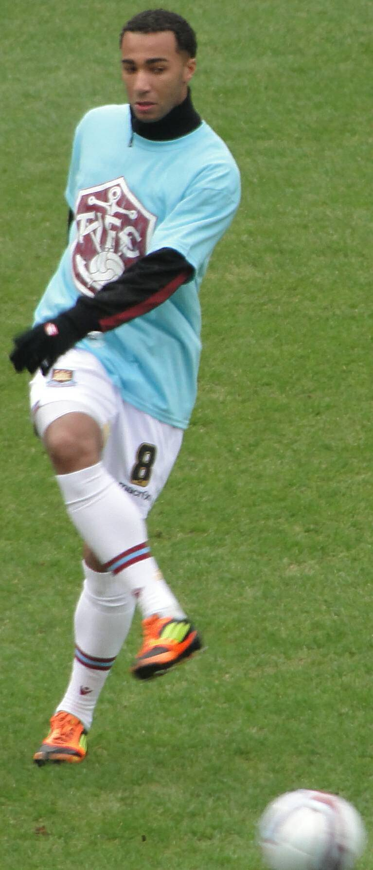 West Ham United footballer, Nicky Maynard, warming up before West Ham's game and win against Millwall.